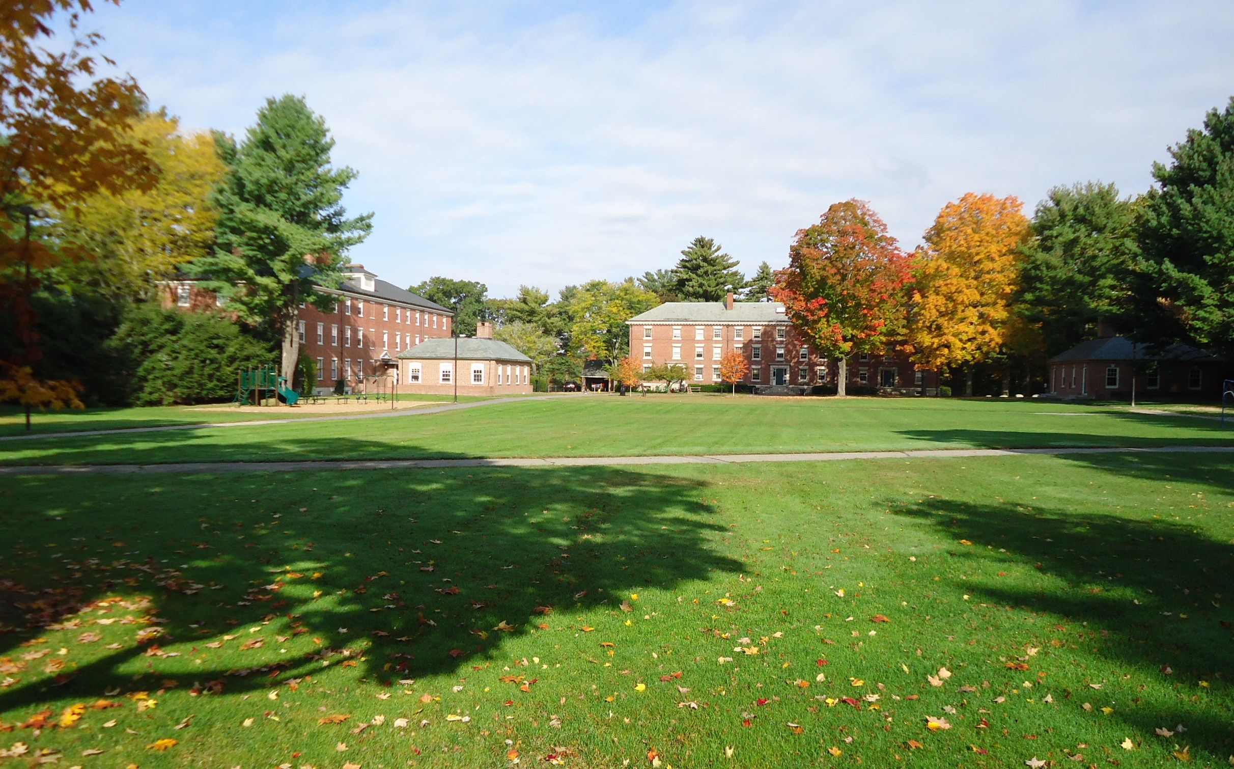 View of west quad south, looking north, at Phillips Academy in Andover, Massachusetts.